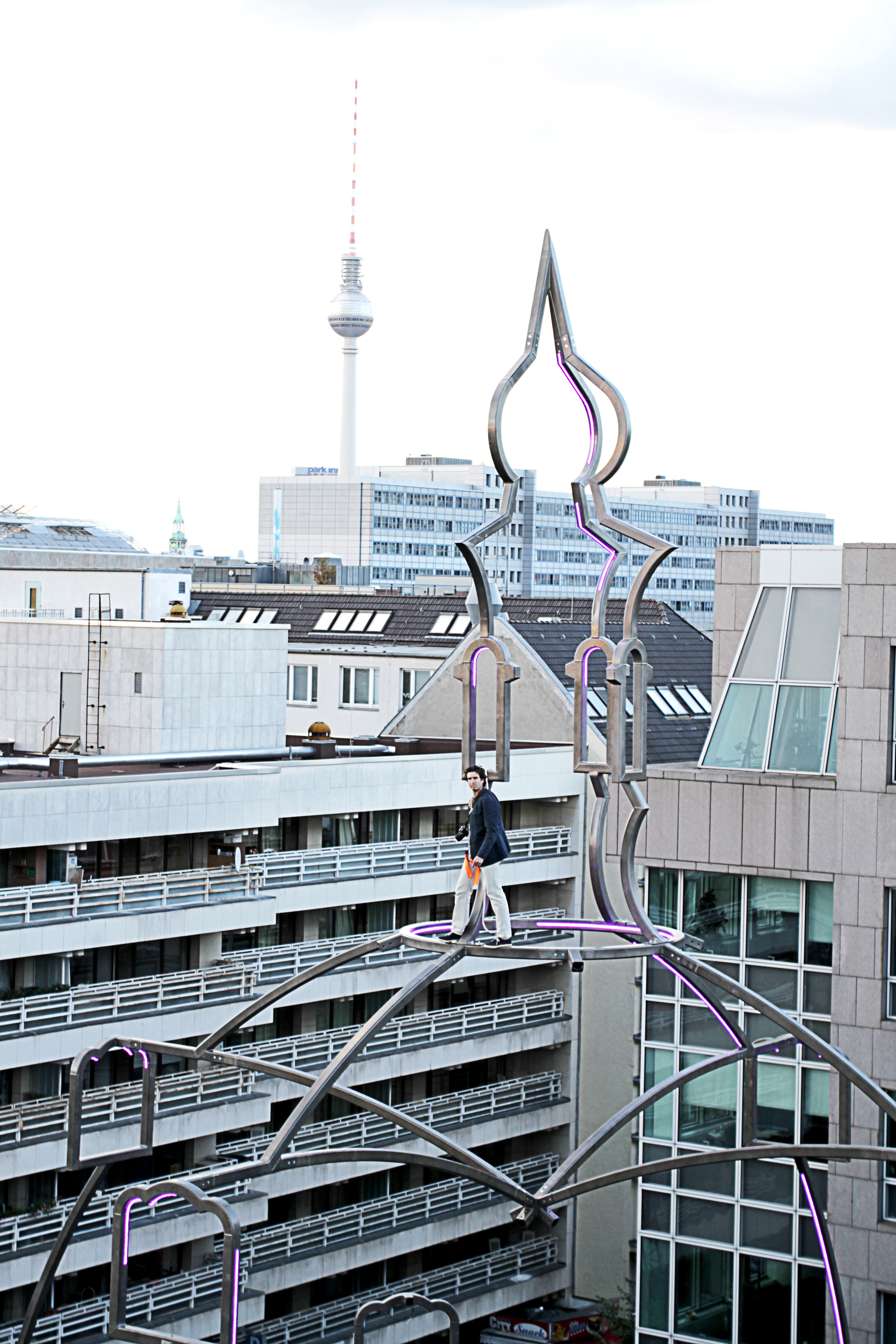 The assembling process